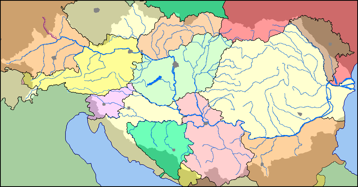 Danube Basin. Blank map version of the french map Image:Bassin-du-Danube.png